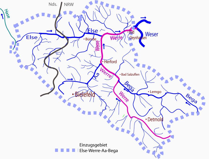 River Werre in northwestern Germany within Werre-Else-Aa river system